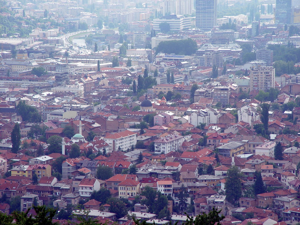 Copyright Information: This is a private picture taken by user Asim Led. Use on wikipedia is, of course, allowed.